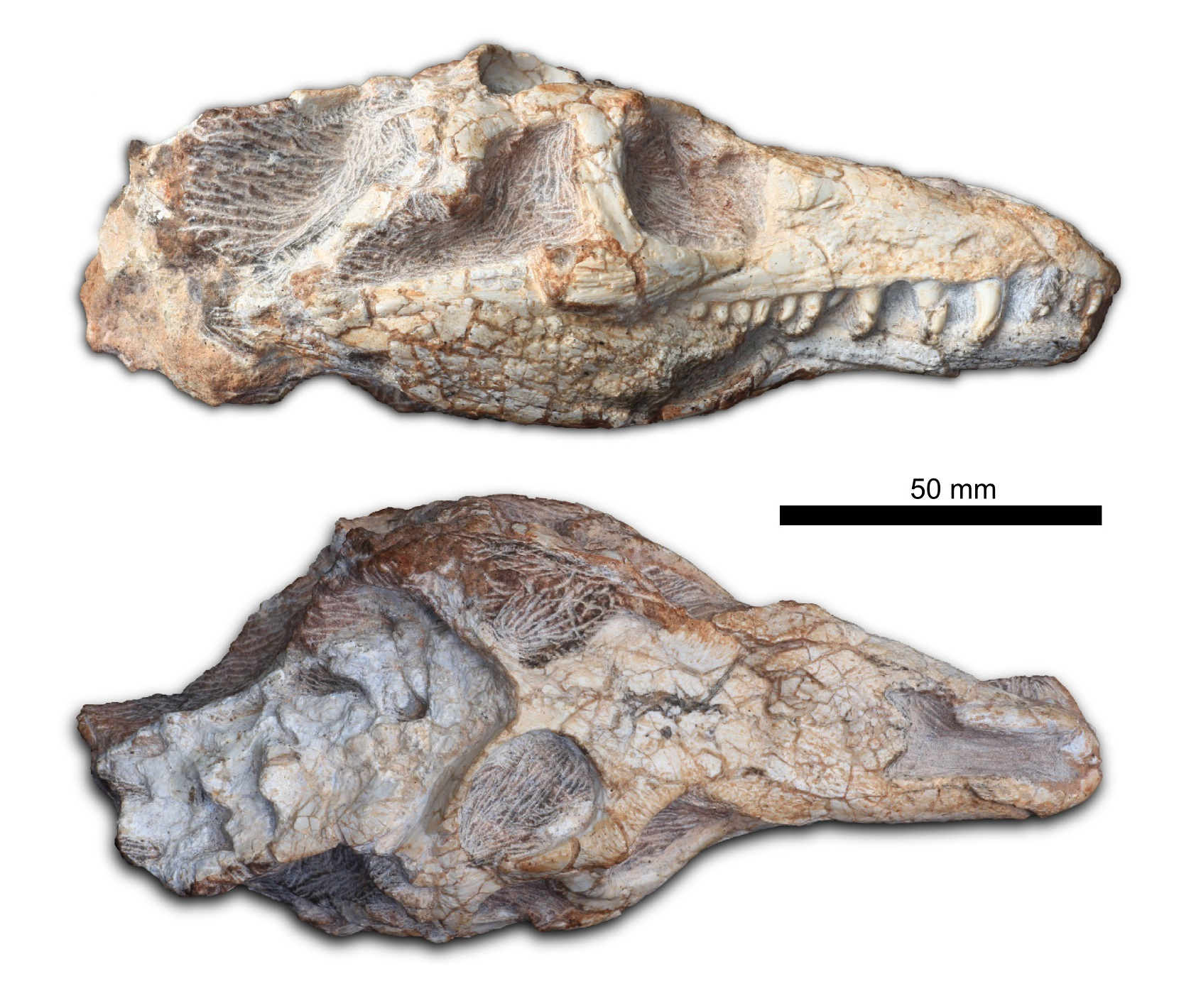 Skull of Teyujagua paradoxa, holotype (UNIPAMPA 653) .